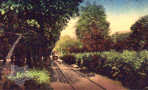 Tram in Oradea crossing Balcescu Park